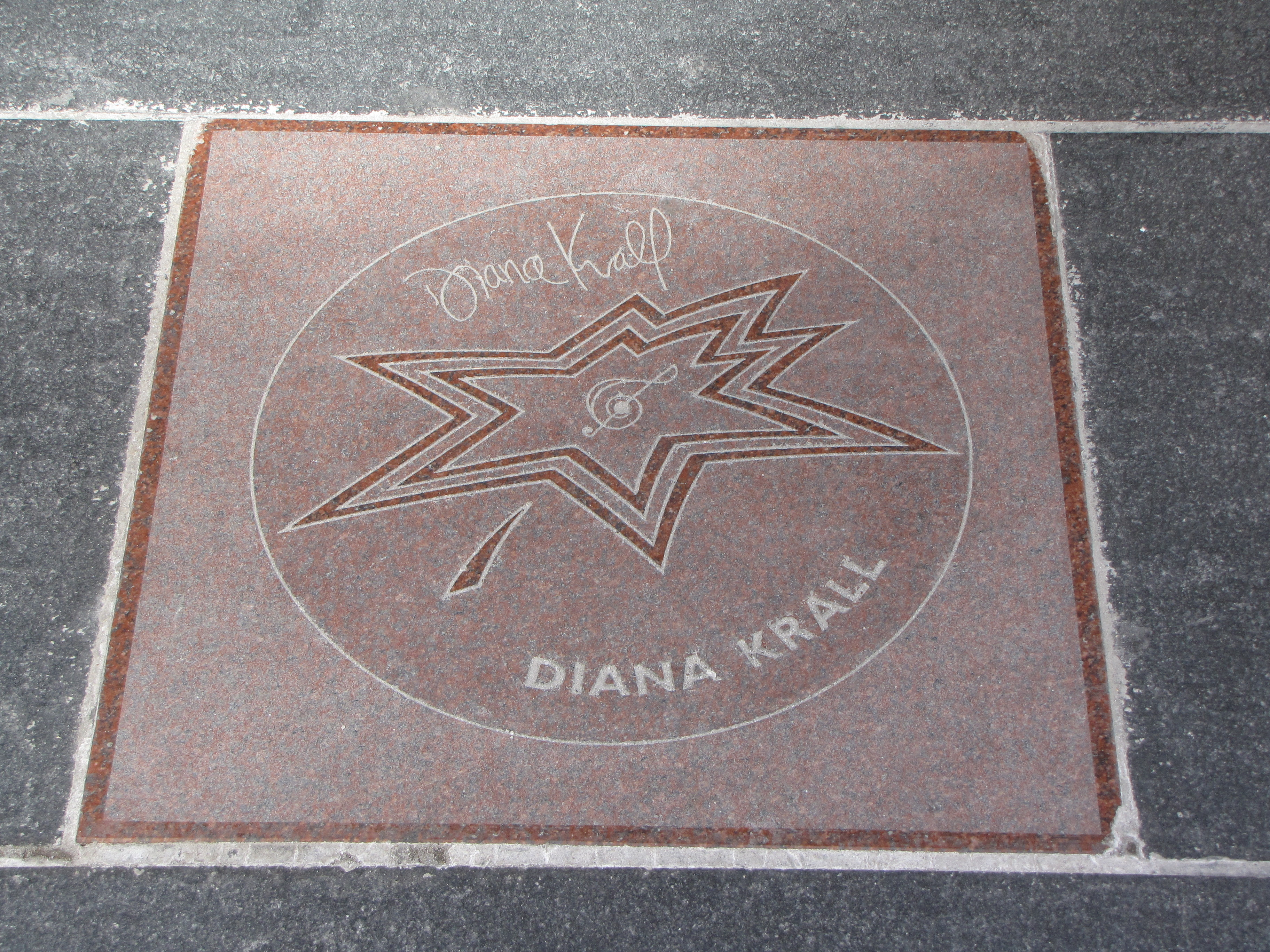 Diana Krall's star on Canada's Walk of Fame